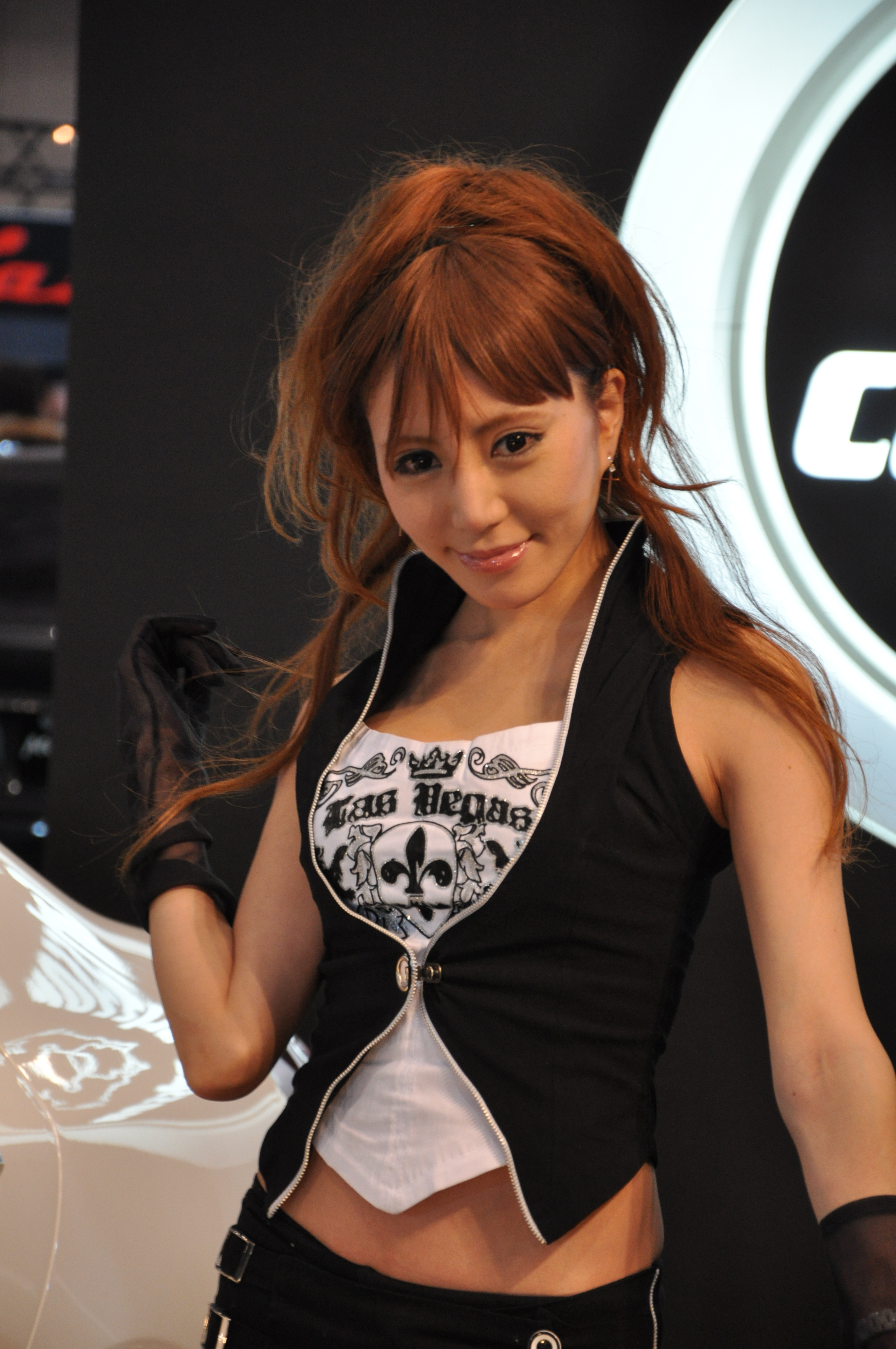 TOKYO AUTO SALON 2014 with NAPAC_028